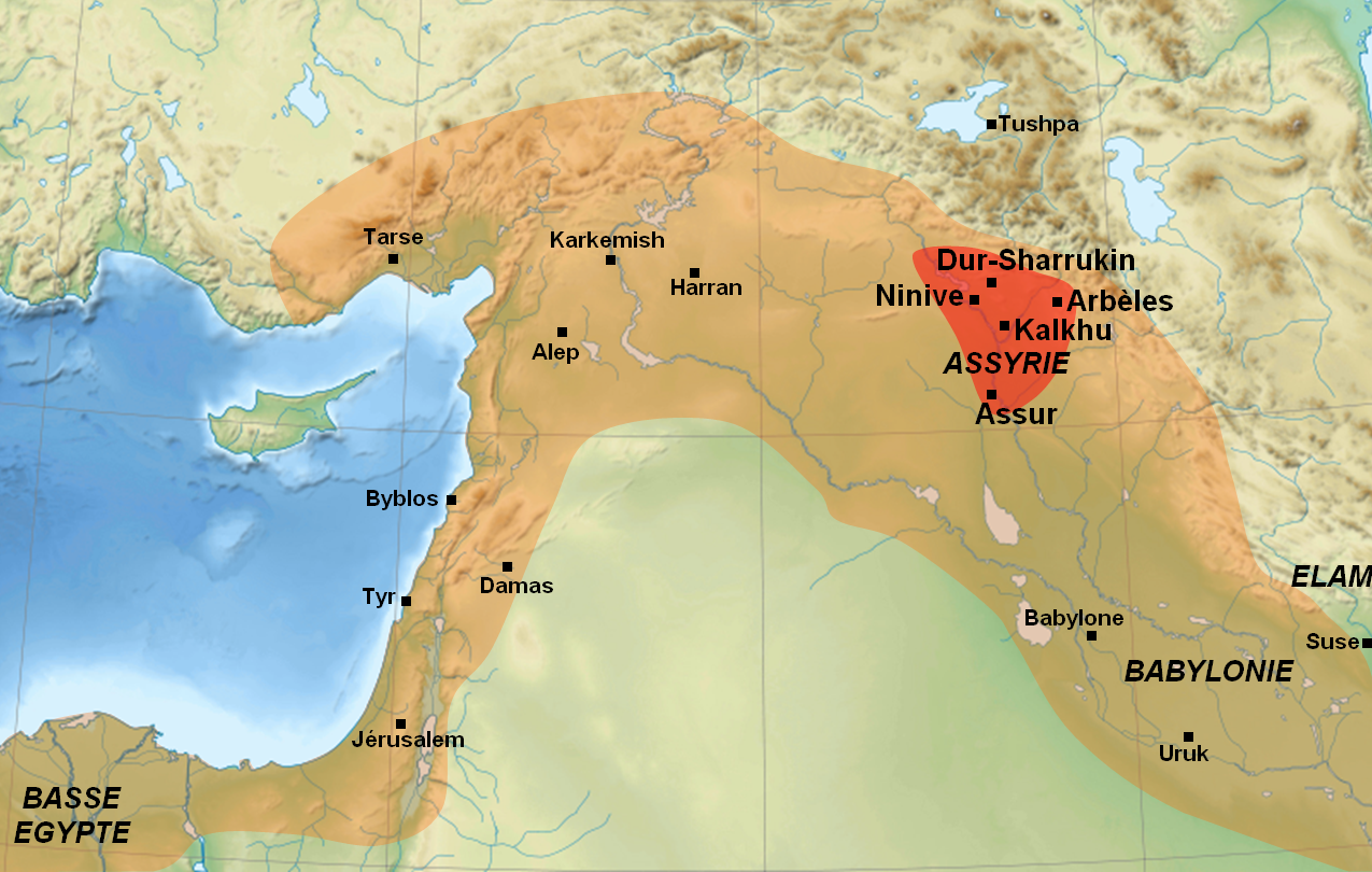 In red : the assyrian heartland, with the main assyrian cities. In orange : the maximal extension of the Assyrian empire under the reign of Assurbanipal (668-627 BC).